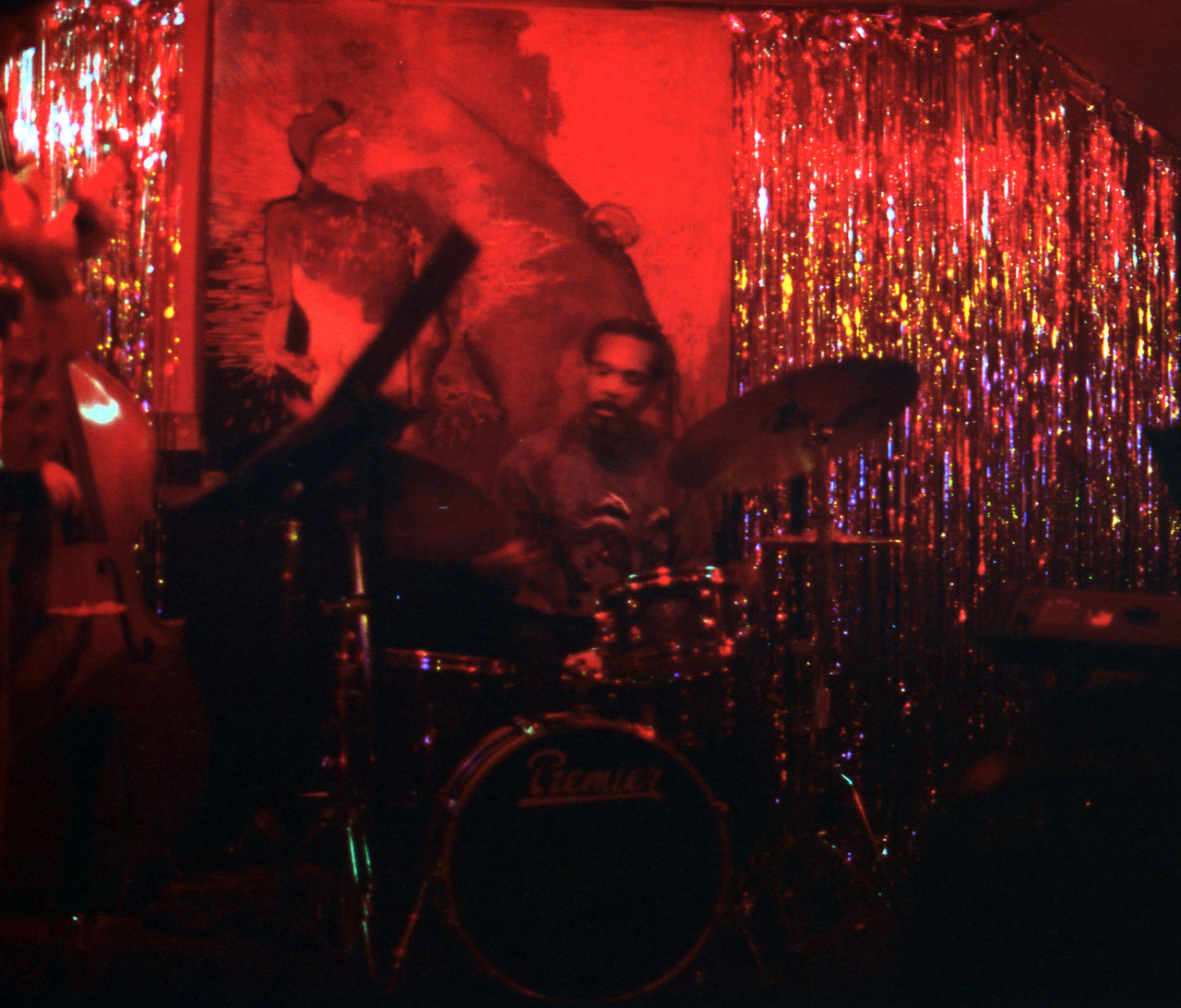 "Don Mumford playing at the Taproom in Lawrence, KS, circa 2002. Usually with him were Ben Singer on keys, Charlie Rose on guitar or bass, Brad Mestes (sp?) on bass, Adam (I can picture but the surname isn't coming!) on violin... and whoever else stopped by really. Stopping in to see these guys play was hands down the best way you could spend $2 in Lawrence." Clarification: Core personnel was Ben Singer (keys), Brad Maestas (acoustic and electric bass, guitar), Brian Mitchell (guitar) and later, Charlie Rose (guitar, banjo and acoustic bass). A few notable guests included Adam Galblum (violin), Brian Baggett (guitar) and Josh Adams (drums). [Brad Maestas]